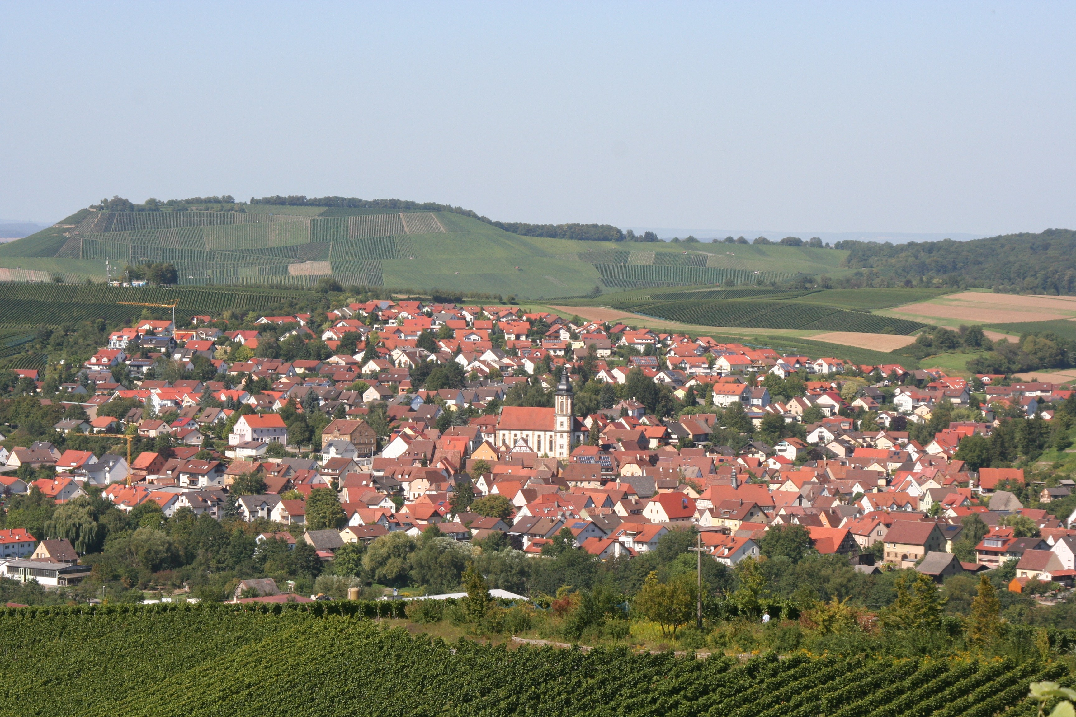 Erlenbach (Heilbronn district), in the background on the left the Scheuerberg hill in Neckarsulm. Photographed from the Schemelsberg hill in Weinsberg